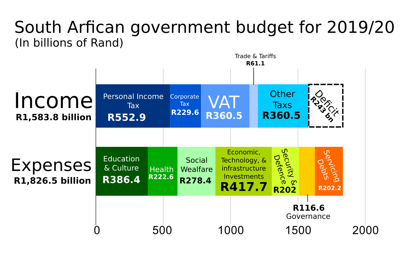 South African government income and expenses for FY 2019/20 as published by the South African treasury. An svg version of this can be found at File:SA_government_income_&_expenses_2019.svg